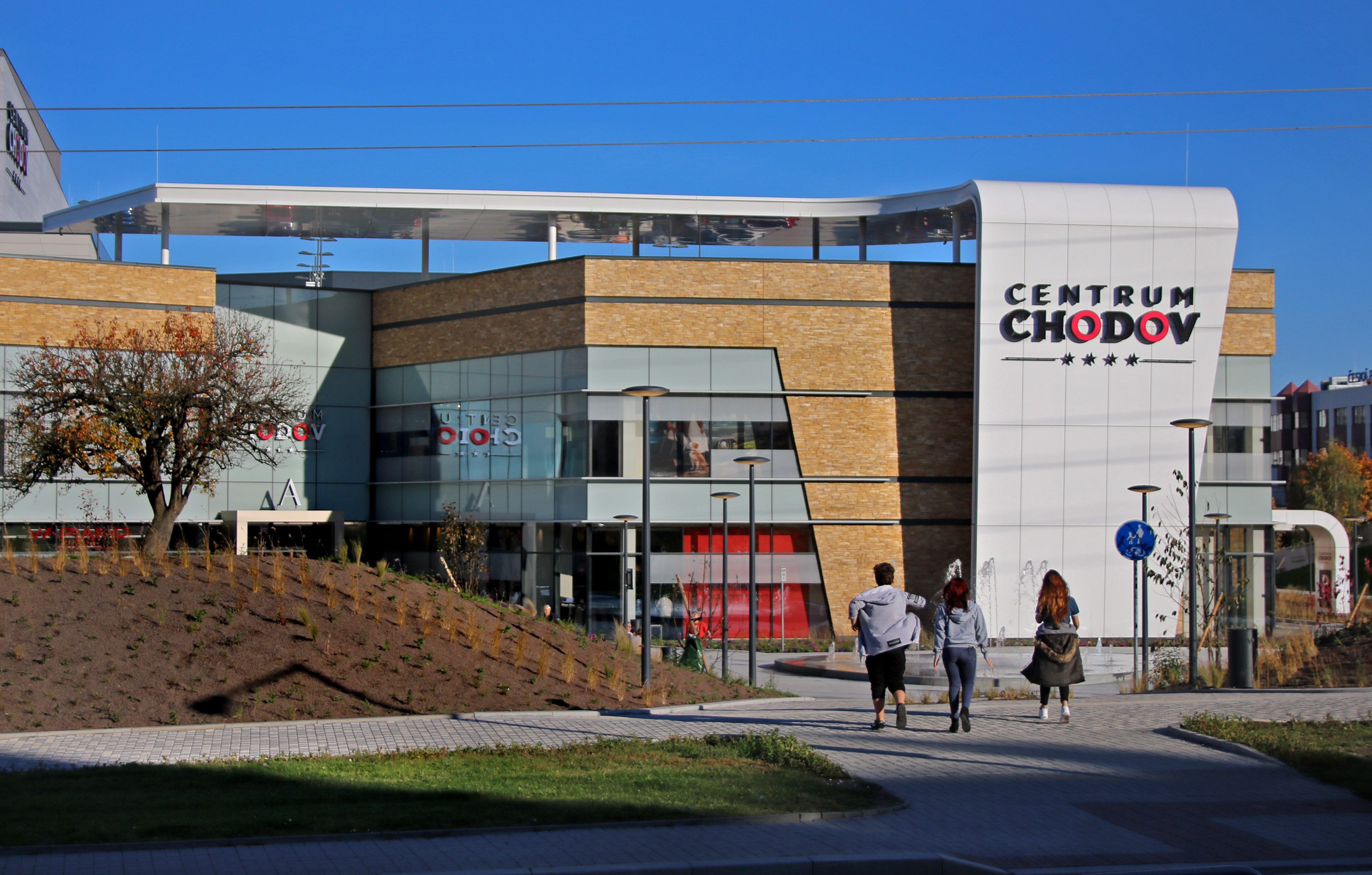 Shopping center Chodov, Prague, A entry